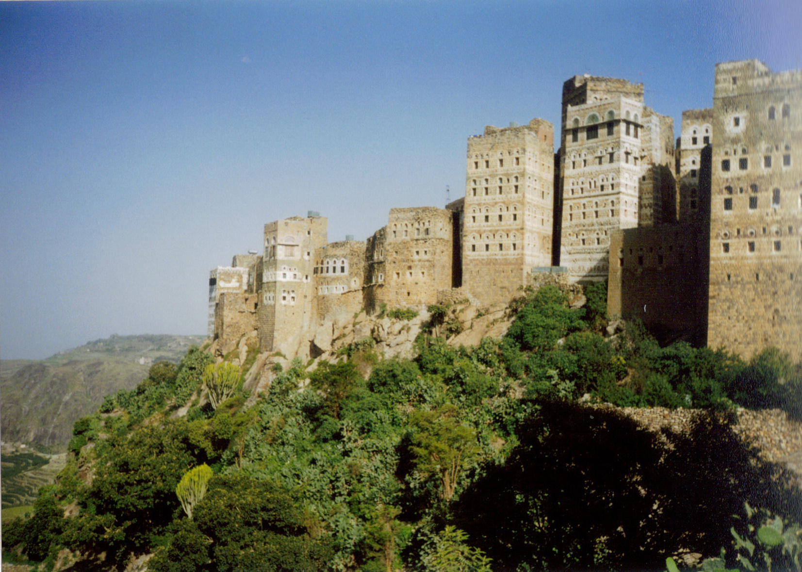 Village Al-Hajjarah, Manakhah district. Yemen